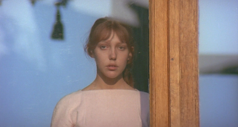 Anne Wiazemsky in Teorema (1968).